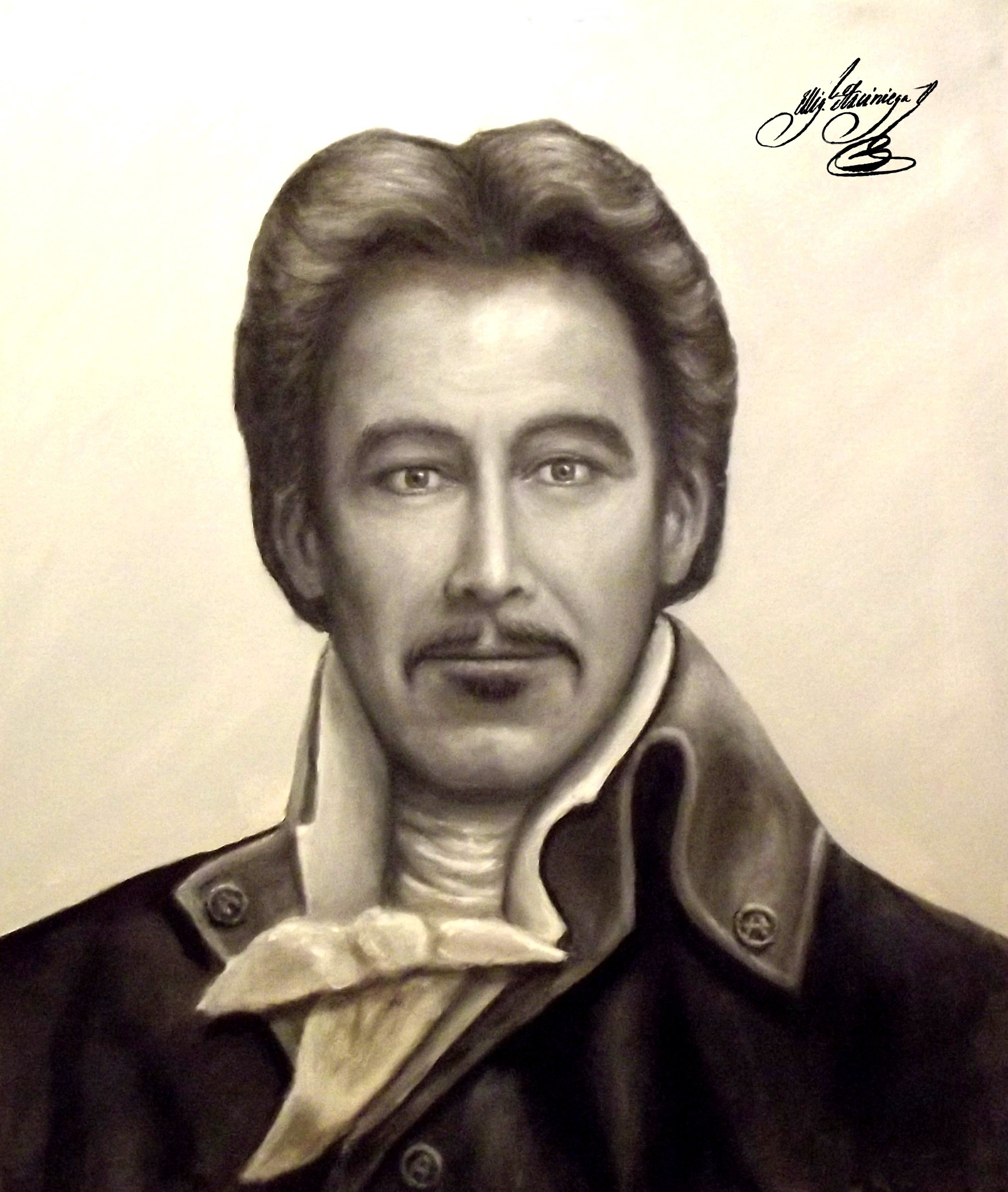 Alcalde Jose Miguel Arciniega of San Antonio, Texas 1830 and 1833